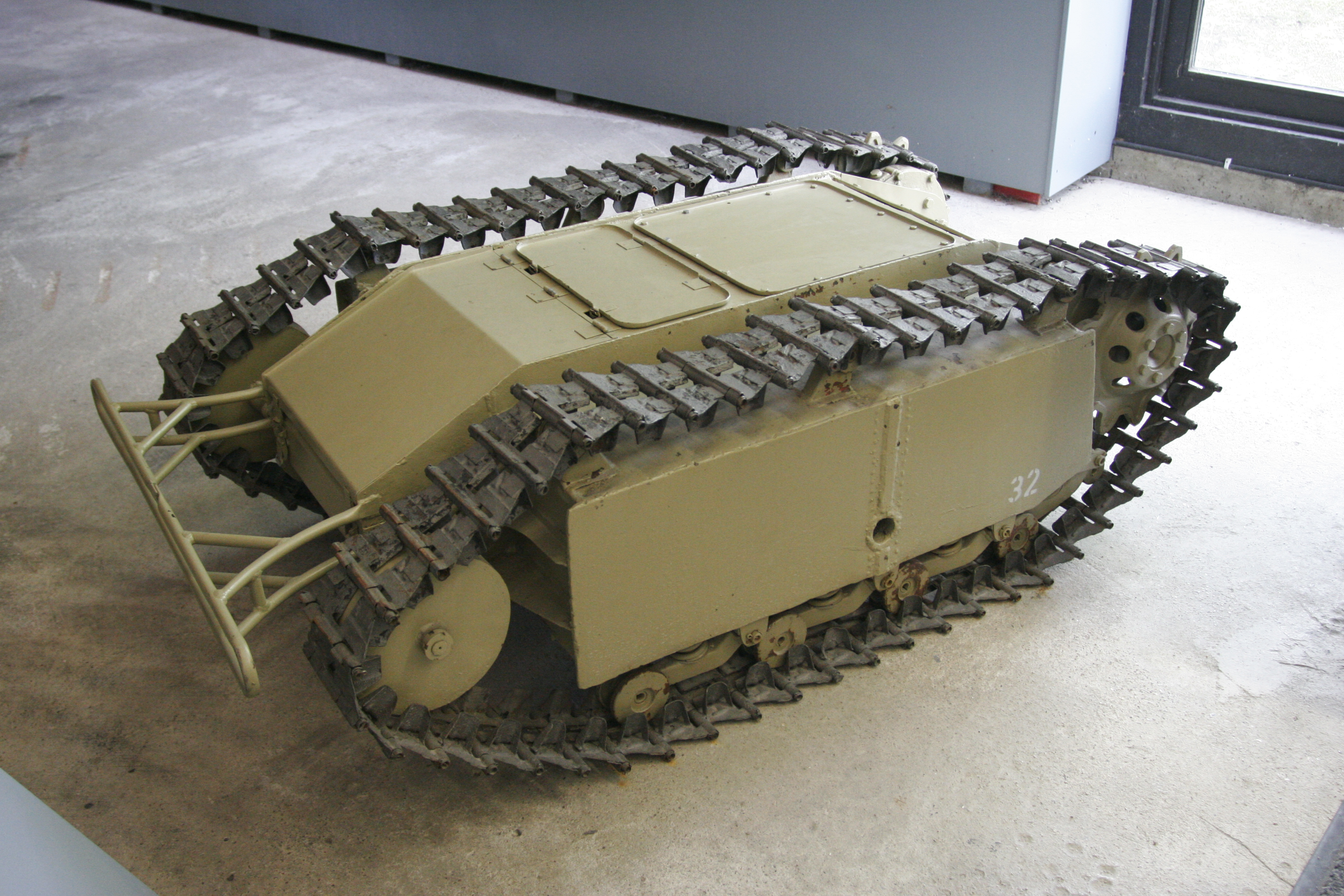 German demolition vehicles "Goliath" E-Motor on display at the Deutsches Panzermuseum Munster , Germany.